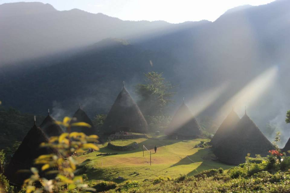 View of Wae Rebo traditional village, on the island of Flores, Nusa Tengara Timur, Indonesia, April 2018